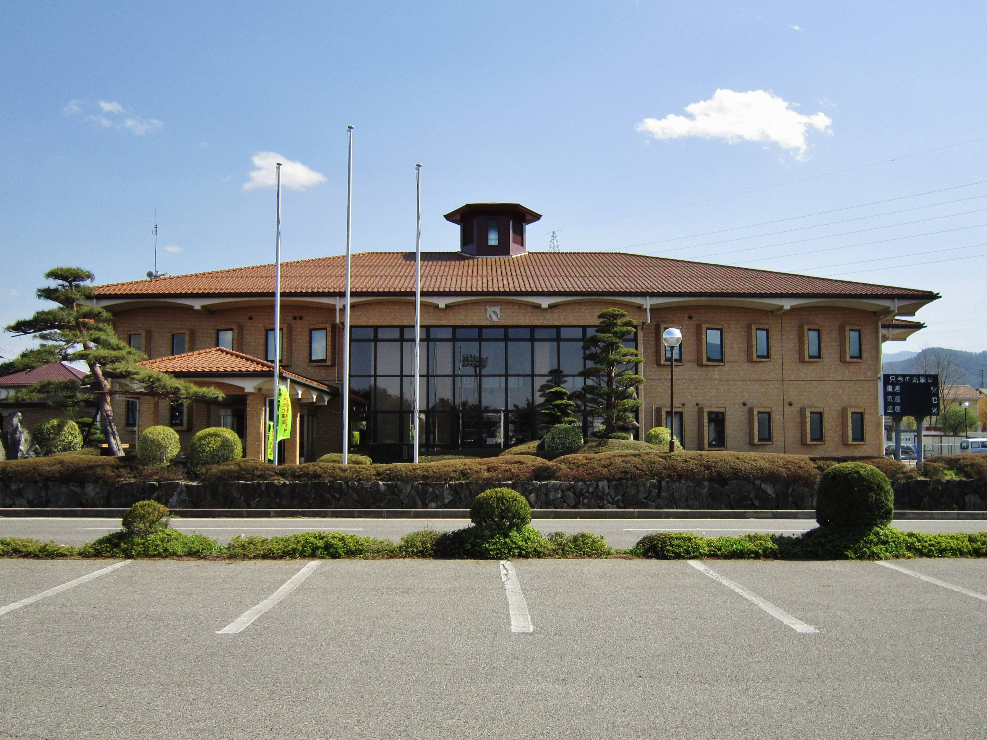 Yamagata village office.